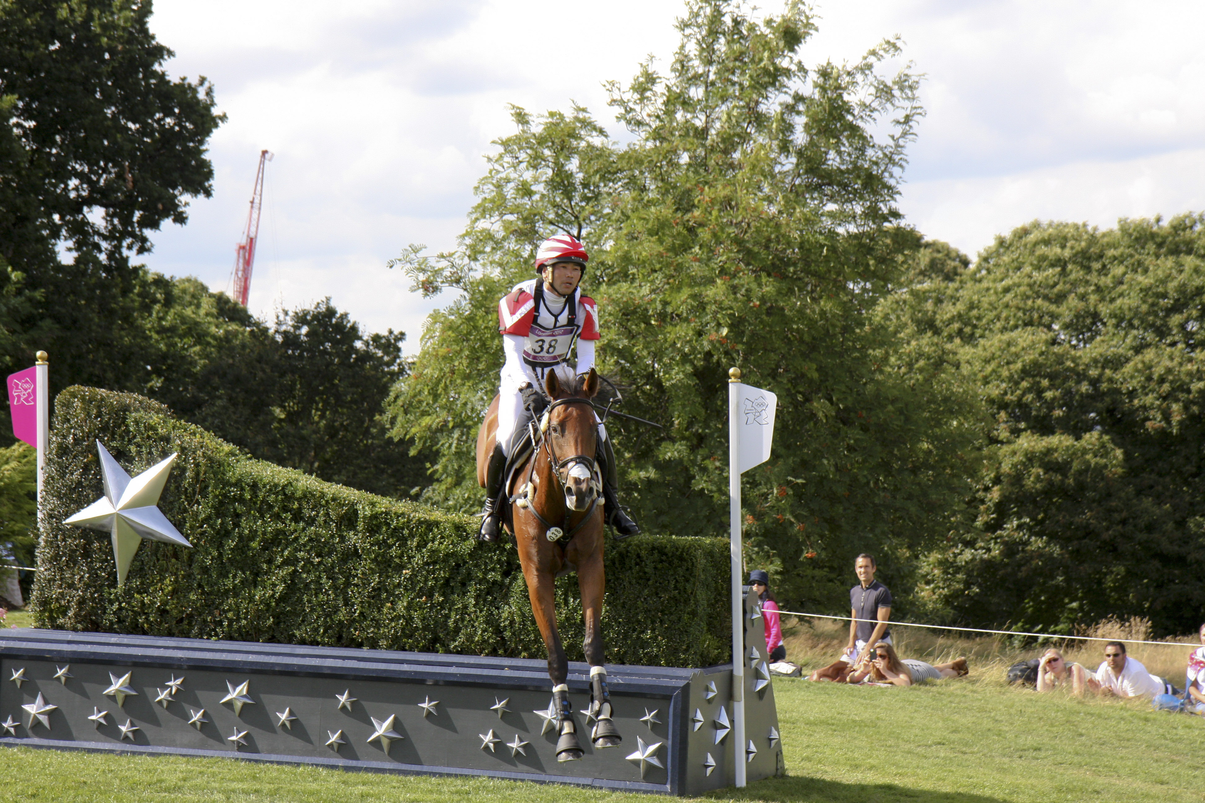 Atsushi NEGISHI - bib 38 Photos from the Olympic cross-country event in Greenwich Park on July 30th 2012